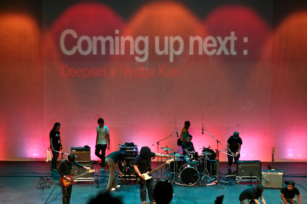 Deepset X Nyoba Kan performance at KLUE URBANSCAPE 2009